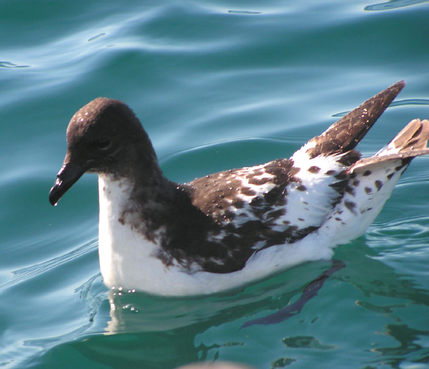 Cape Petrel Daption capense off Kaikoura, New Zealand. Photgraphed on 21 October 2004.